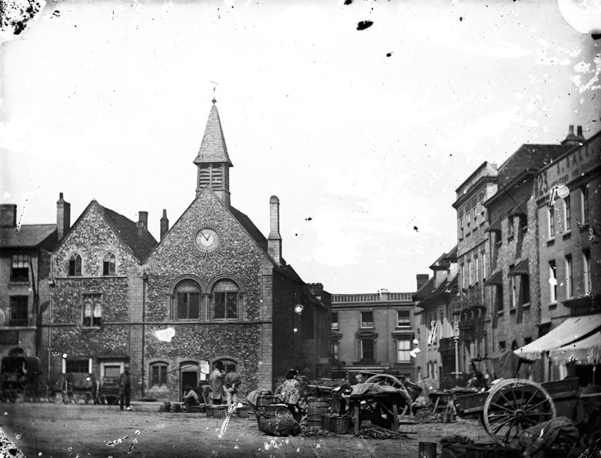 Early view of Moyse's Hall, today Moyse's Hall Museum, circa 1860. Courtesy of the Spanton-Jarman Collection, Bury St Edmunds Past and Present Society, Bury St Edmunds, Suffolk